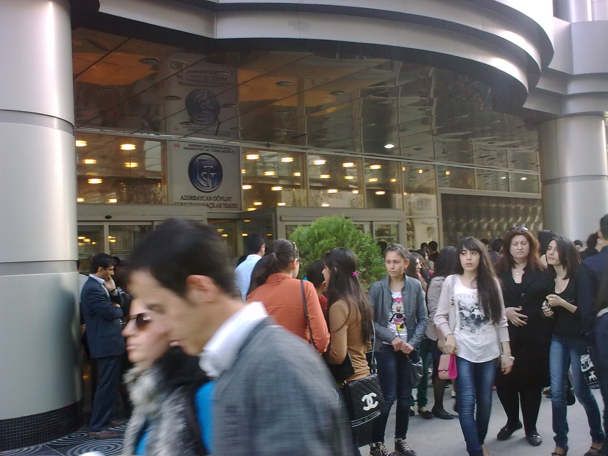 Audience in front of Azerbaijan State Theatre of Young Spectators.